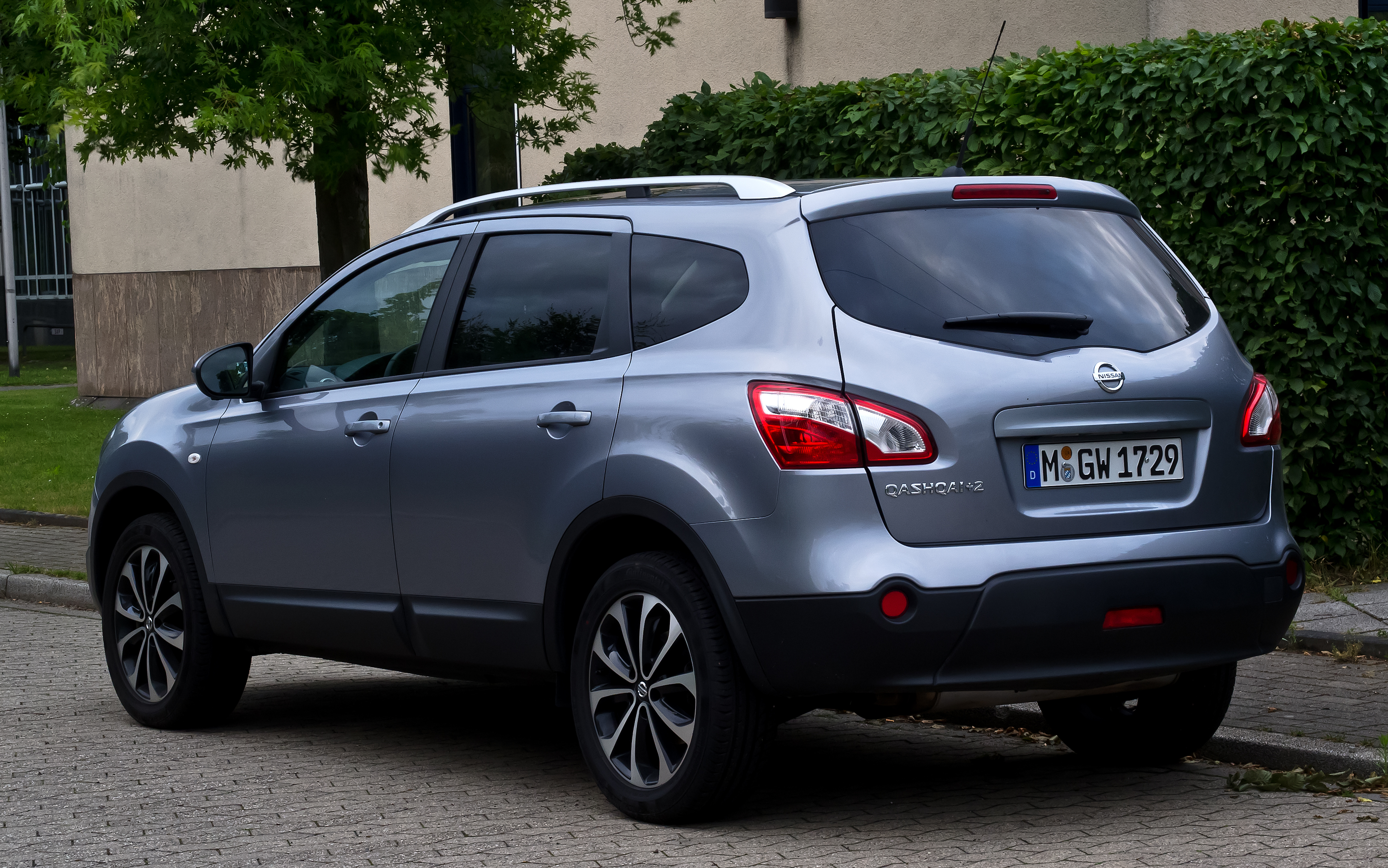 Nissan Qashqai+2 (Facelift)